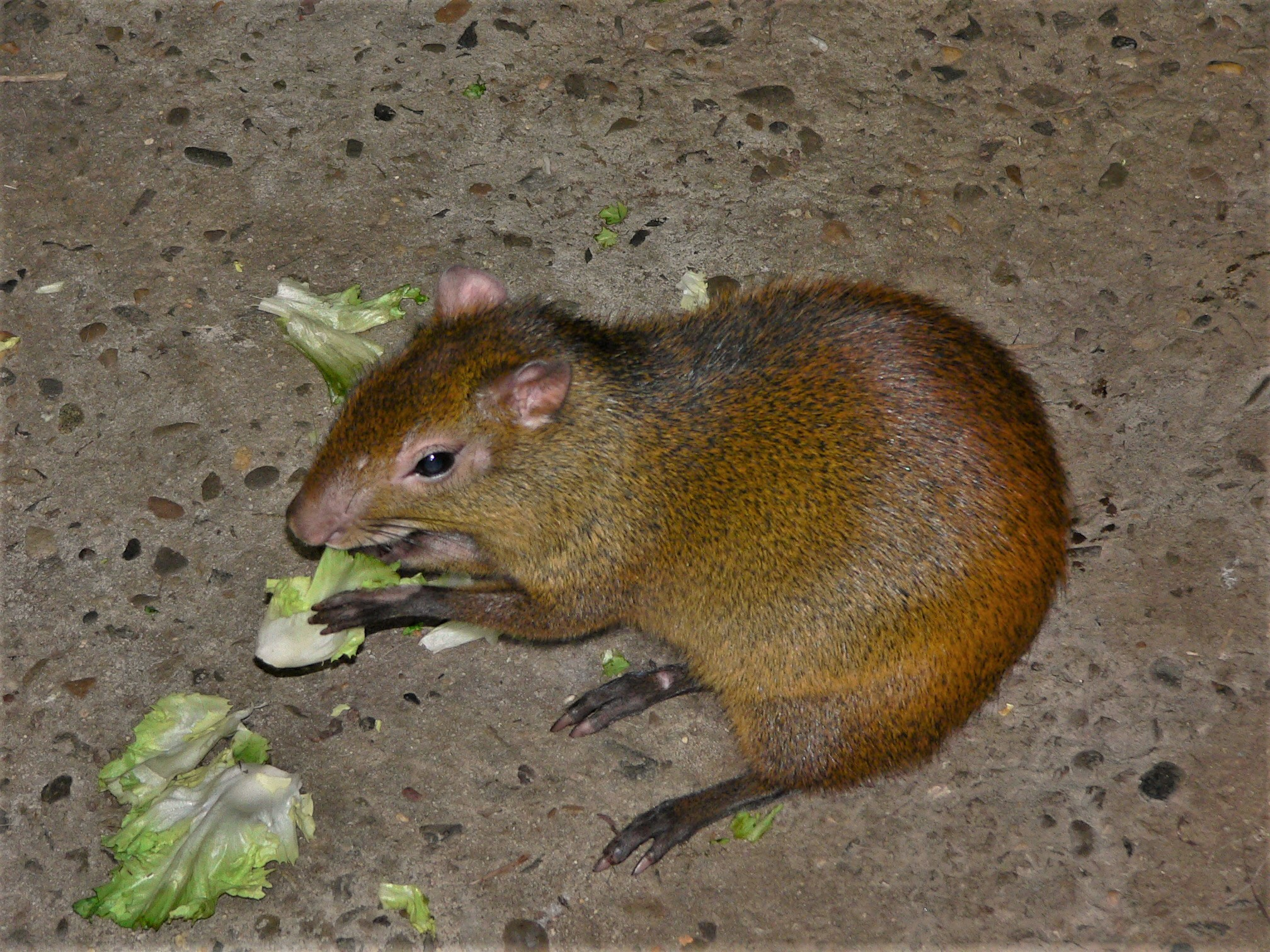 Brazilian Agouti at Philadelphia Zoo.